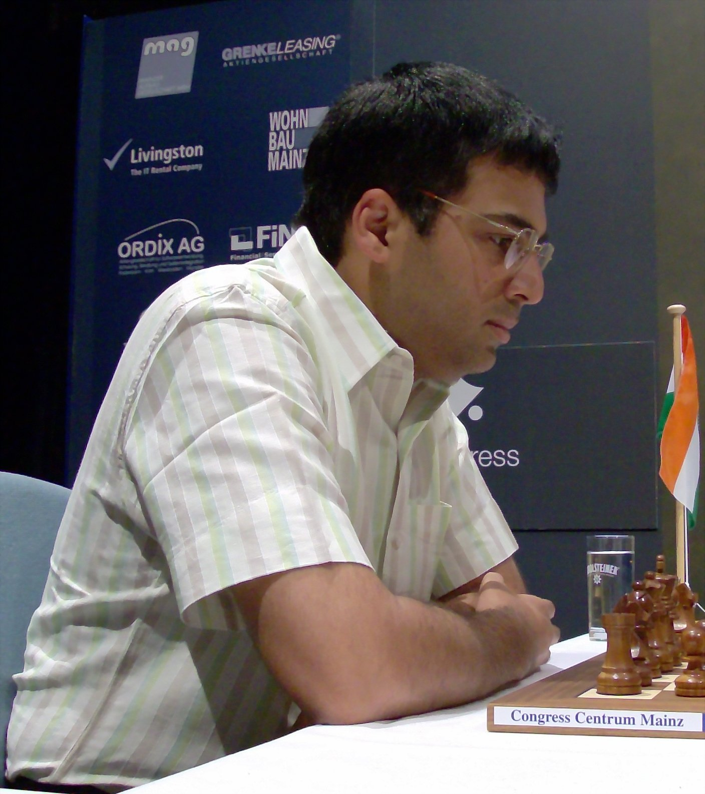 Vishy Anand at the 2008 Chess Classics